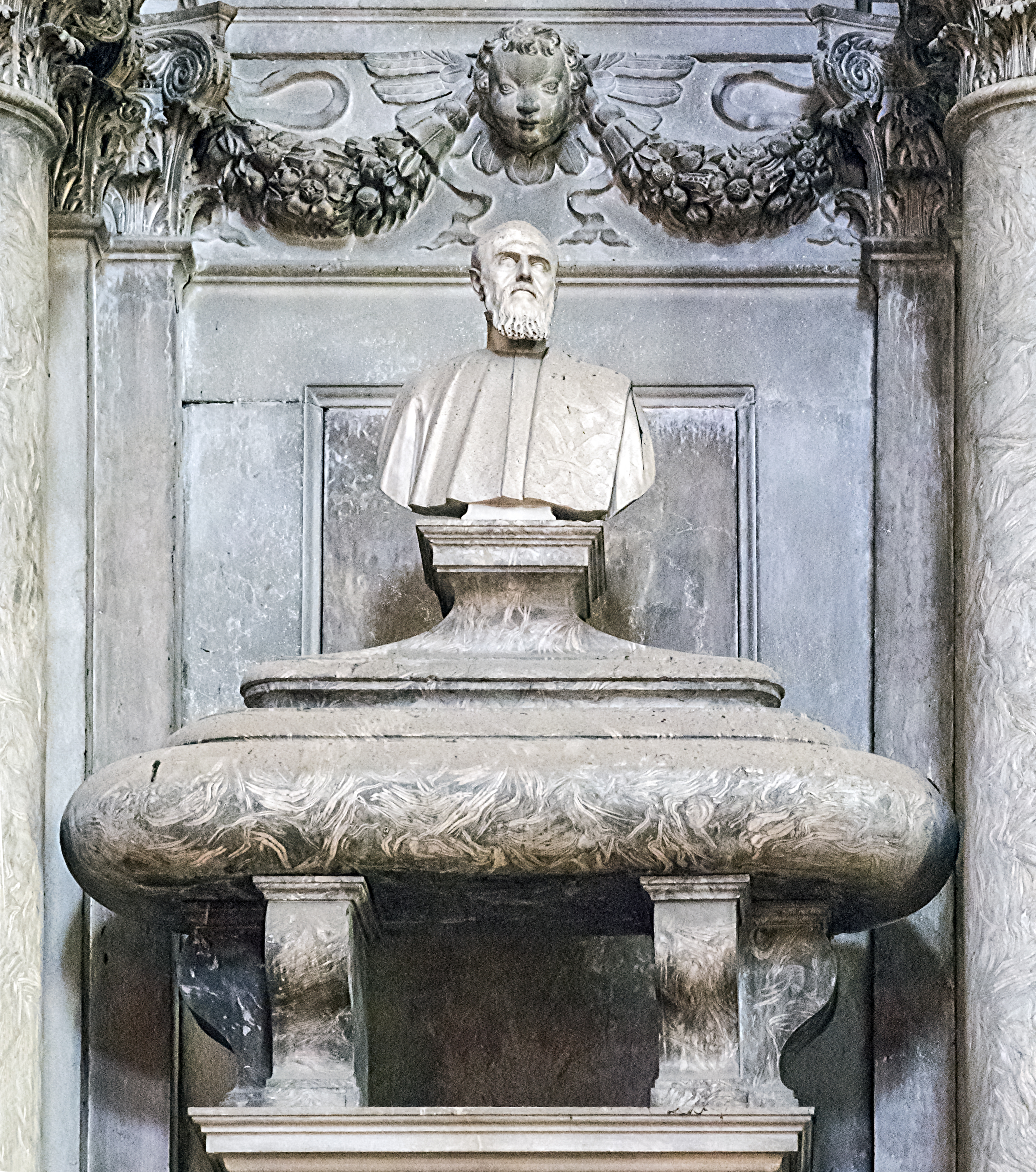 San Salvatore – Monument to Andrea Dolfin - Bust of the procurator of St. Mark Andrea Dolfin (1545 - 1602) by Girolamo Campagna.